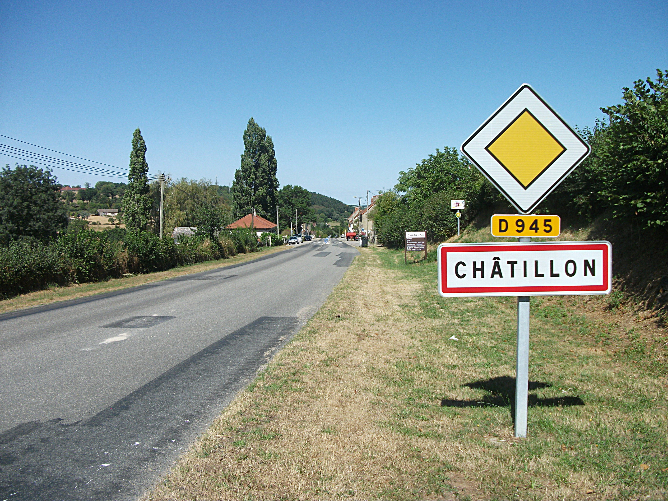 Entrance of Châtillon, Allier, by departmental road 945 [16739]